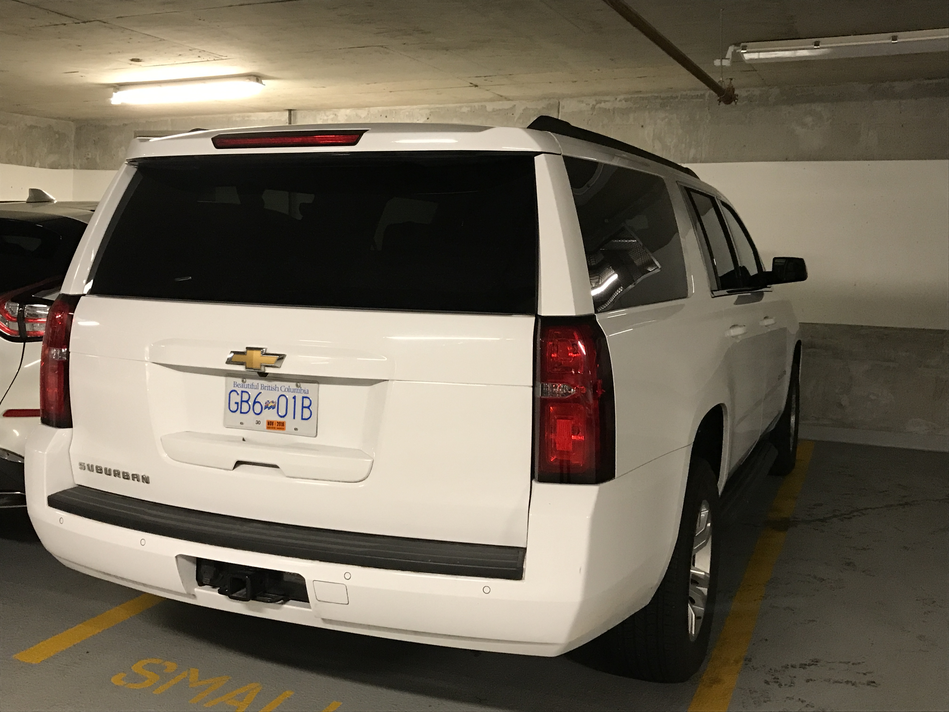 Rear view of a Chevrolet Suburban parked inside an apartment parking lot in Richmond, BC, Canada.